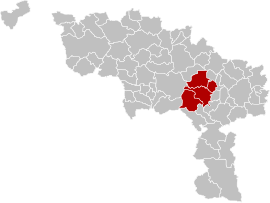 Map of La Louvière District in province of Hainaut, Belgium.